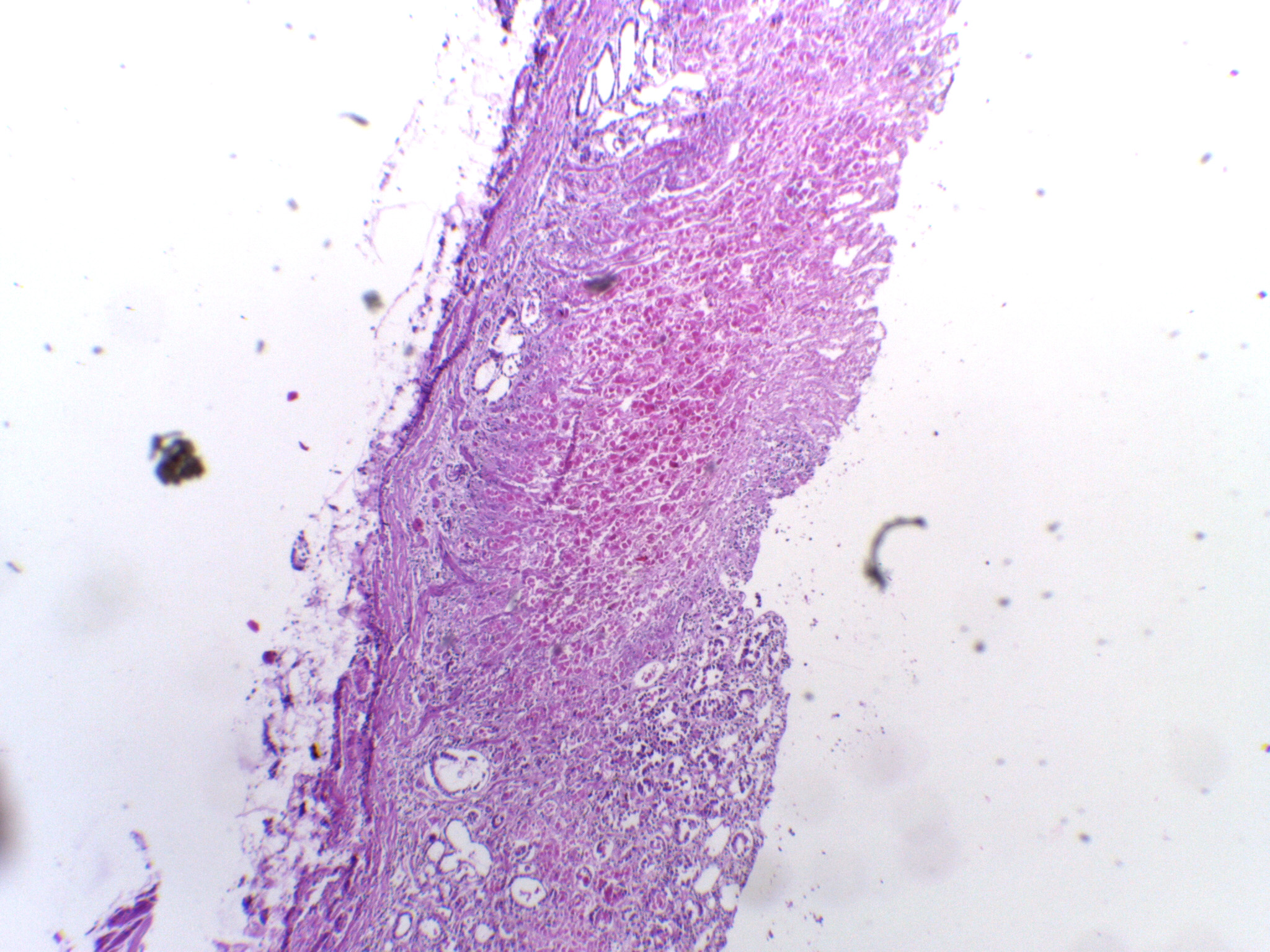 Acute stress ulcer of stomach in erosive gastritis. H&E stain.